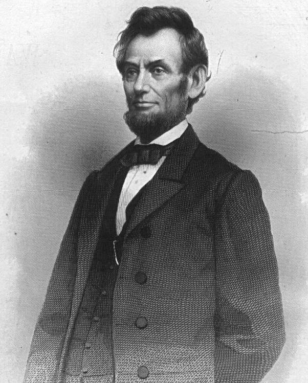 Abraham Lincoln, president of the United States of America.